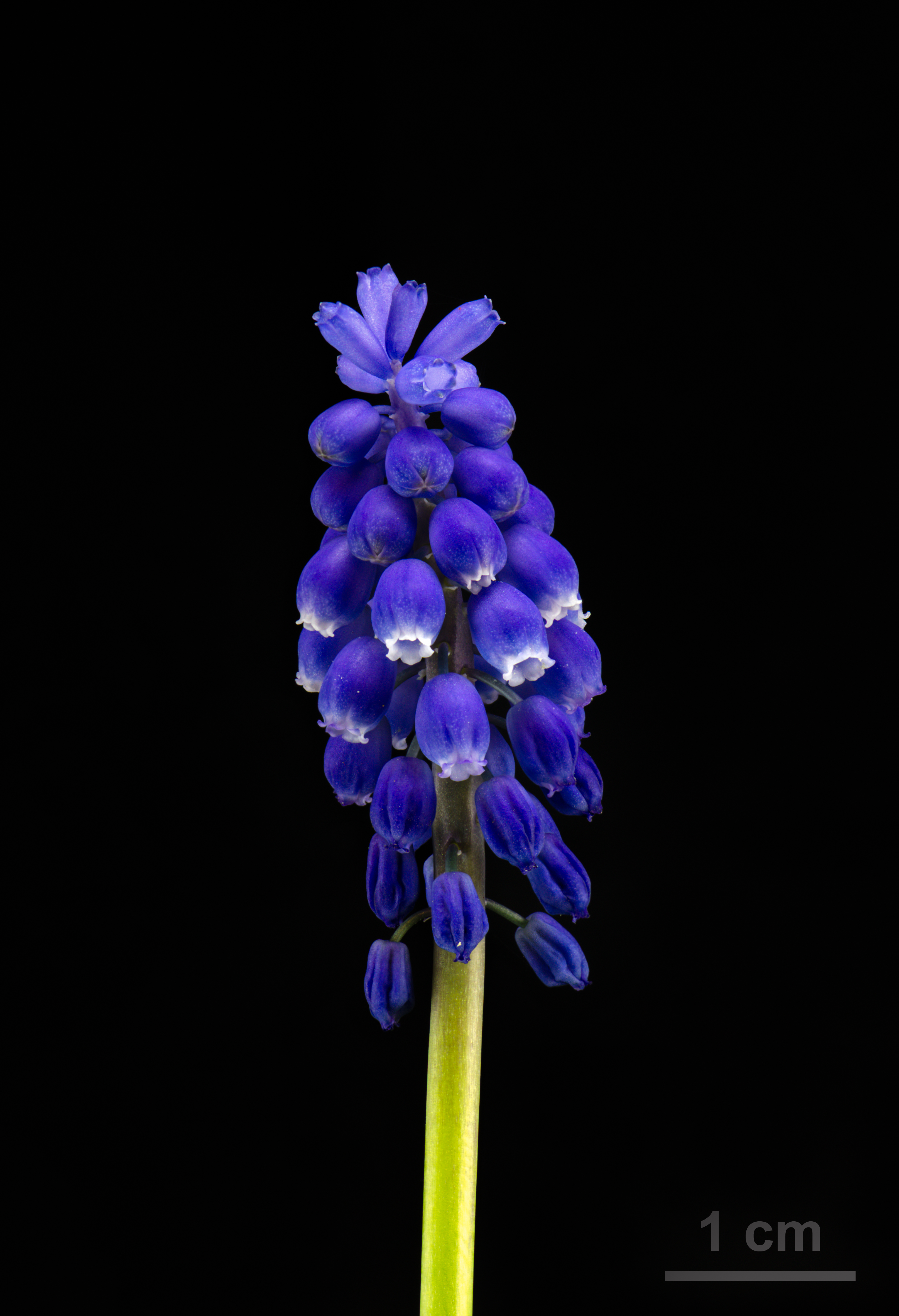 Grape Hyacinth (Muscari armeniacum) in April, Hesse, Germany. Focus stack from 12 images created with Helicon Focus.